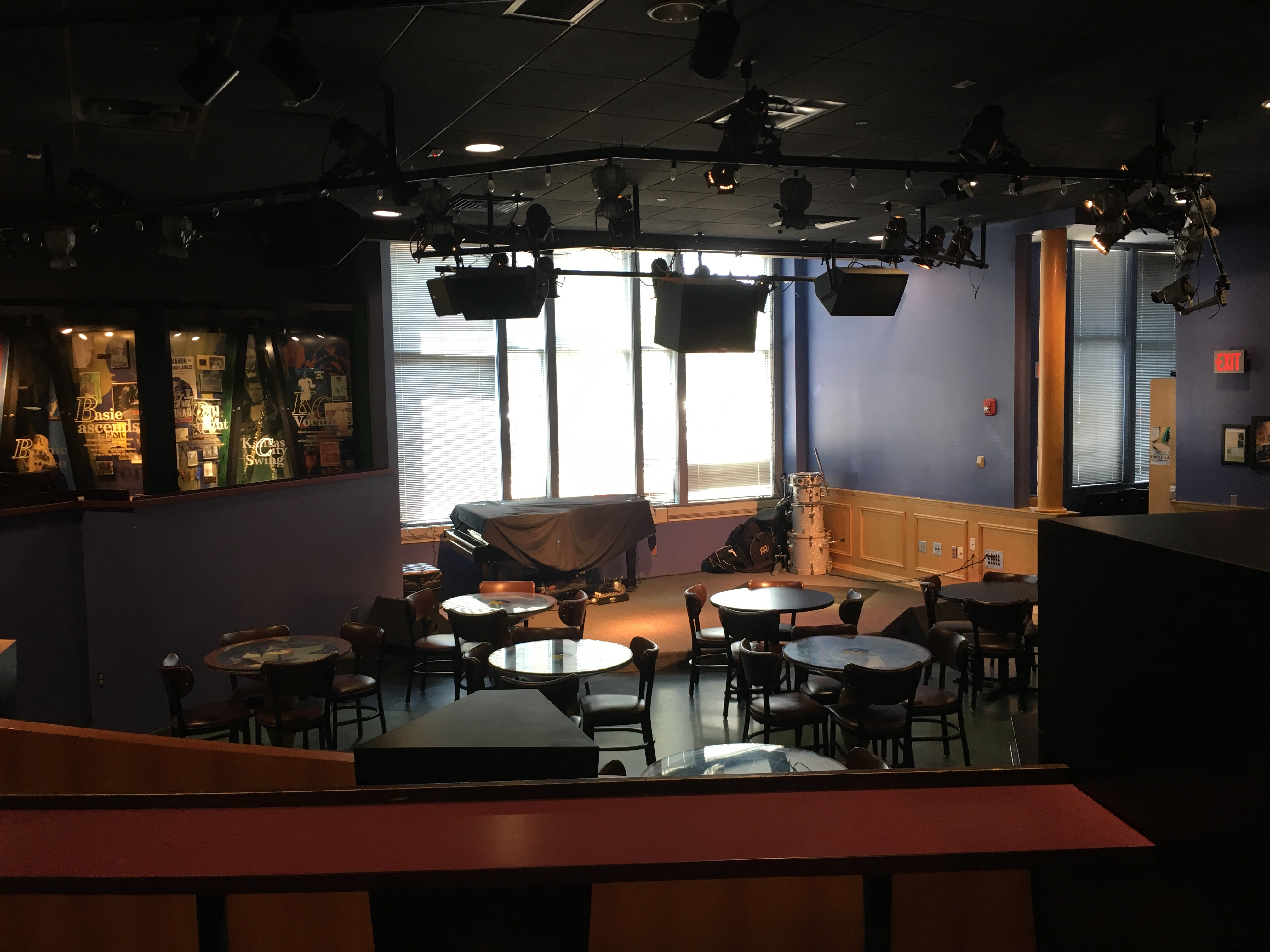 The Blue Room, a functioning club and bar at the American Jazz Museum in Kansas City, MO.